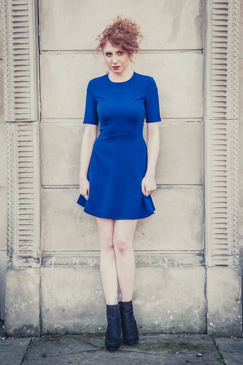 Olga Sarzyńska, actress from Poland